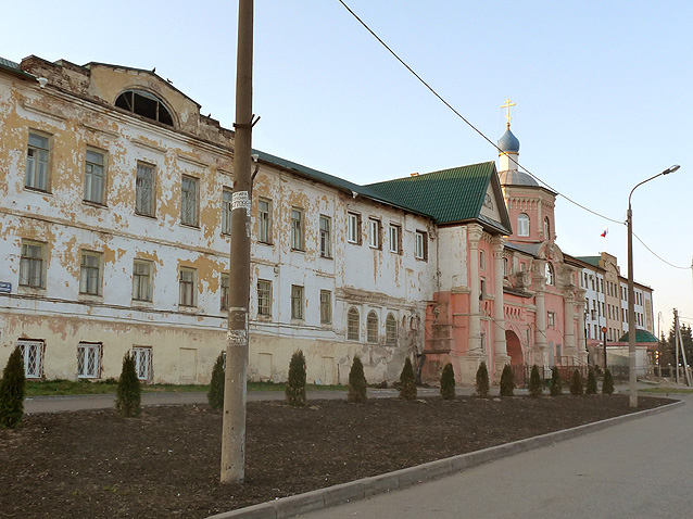 Kazan. Kizichesky Monastery